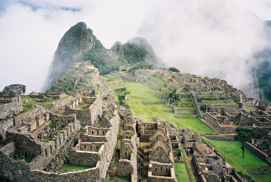 View of Machu Pichu residential district from the Guard House